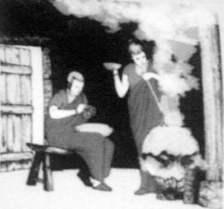 Alimentação na Cividade de Terroso